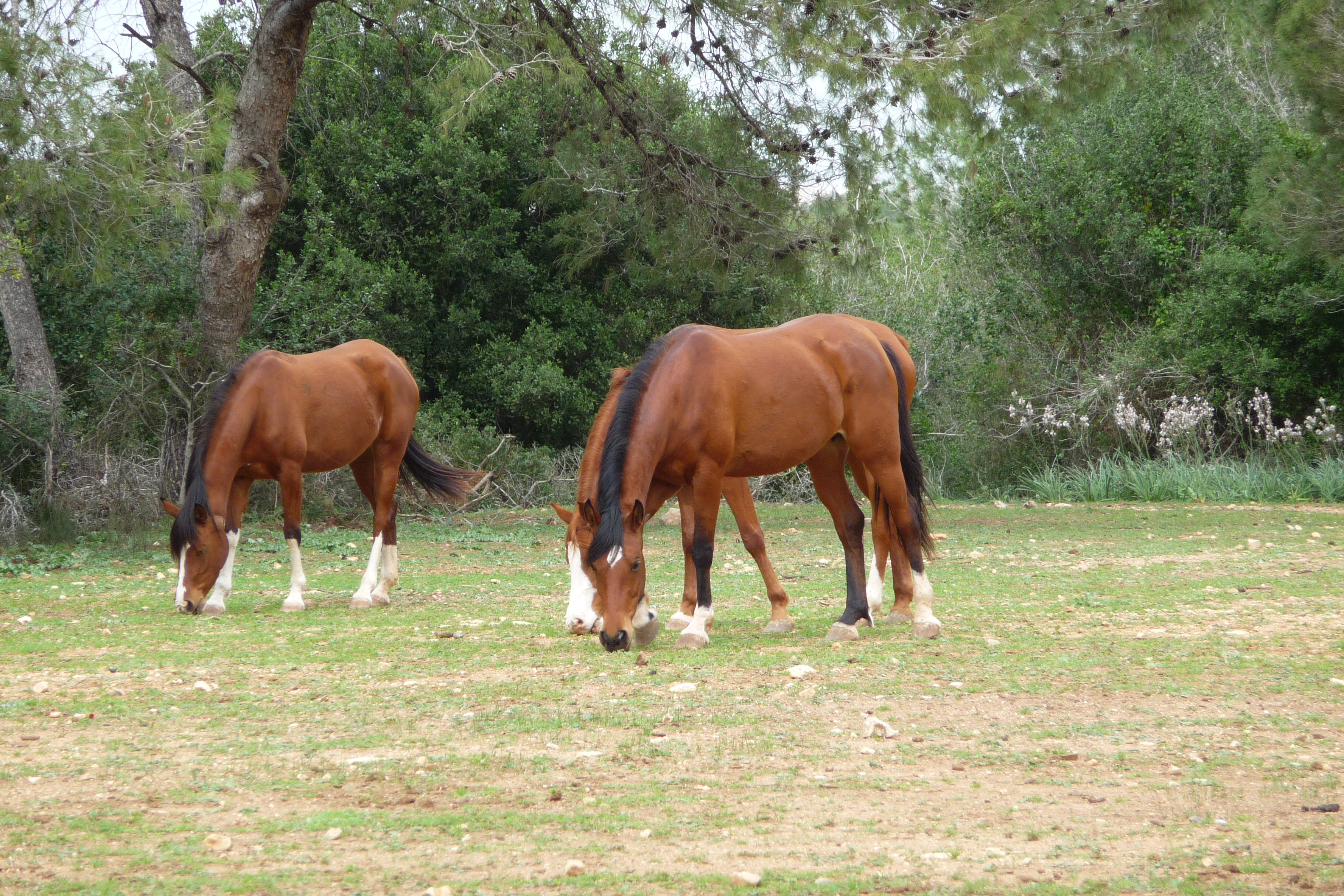 Beit Oren is a kibbutz in northern Israel. It falls under the jurisdiction of Hof HaCarmel Regional Council.